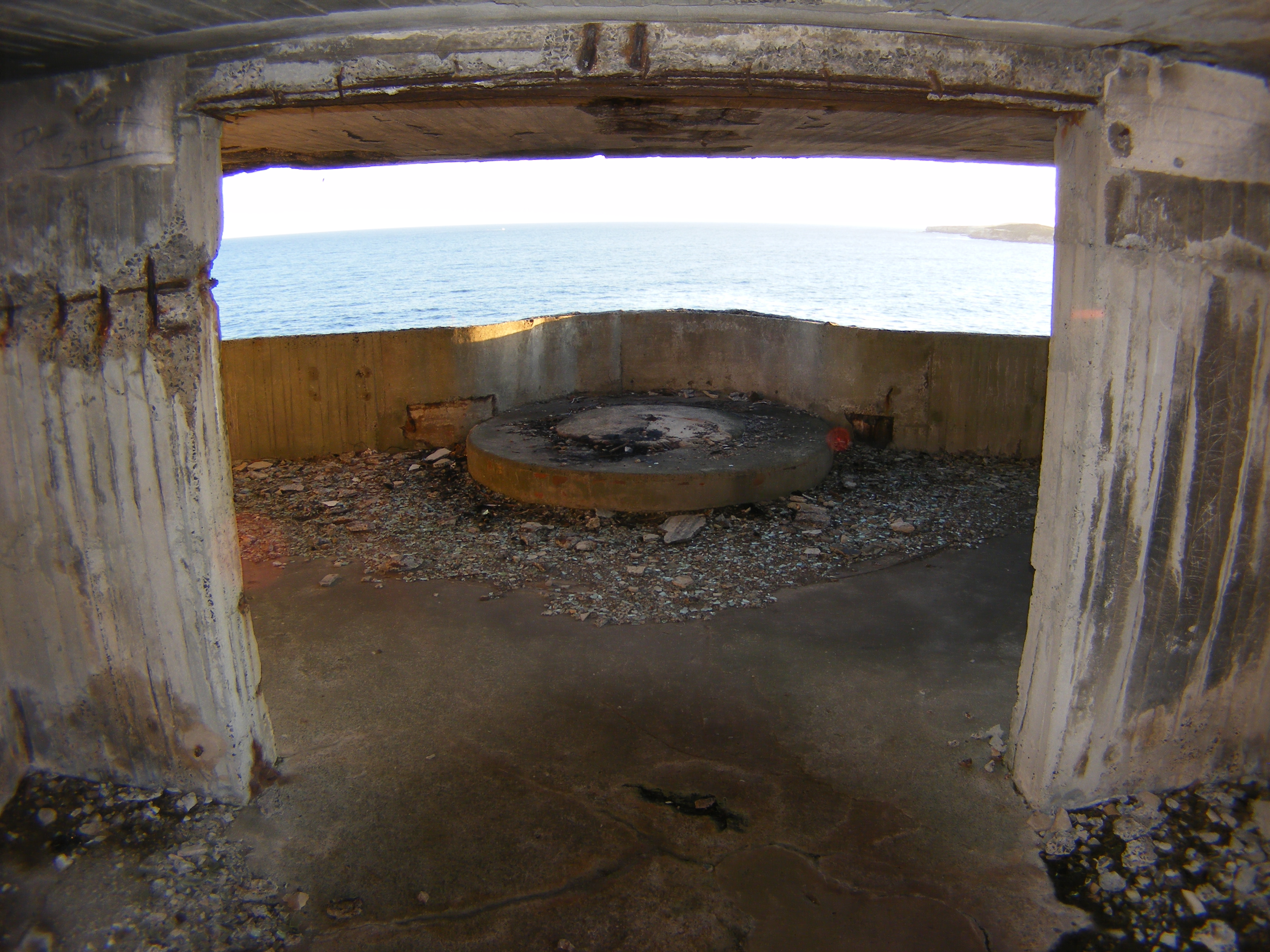 A World War Two bunker that I stumbled upon after hearing about it via word of mouth. It is located in La Peruse, New South Wales and would be quite difficult to find unless you had the rite co-ords.